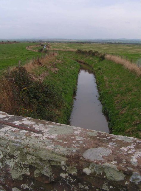 Black Dub,nr Oldkiln. The salt pastures in this area are drained by numerous small becks and drains such as this, just inland from Oldkiln Farm.